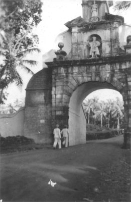 Old Goa. This arch was built to commemorate the landing of Vasco da Gama in Goa. Pic taken out in 1935 by my grandfather. Scanned and edited by me. Nichalp 19:01, July 20, 2005 (UTC)